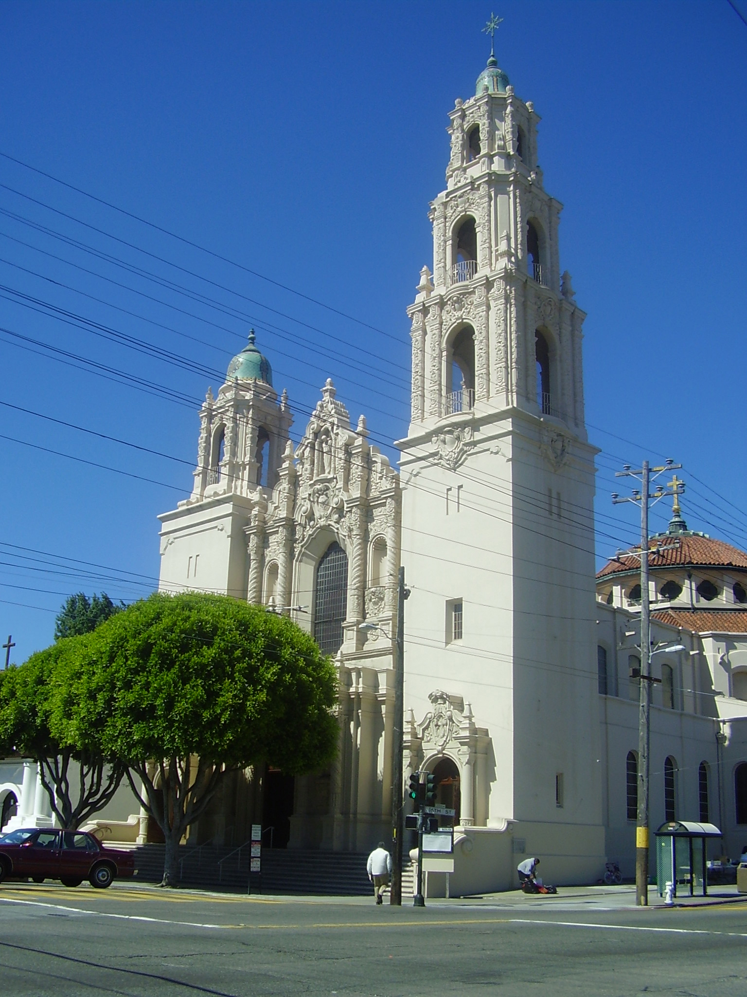 Mission San Francisco de Asís, better known as Mission Dolores, is next door [on the left, hidden by trees] to the early 20th century parish church shown here - at the intersection of 16th and Dolores Street in San Francisco, California . Mission Dolores is the oldest surviving structure in San Francisco and the sixth religious settlement established as part of the California chain of Spanish colonial era missions.